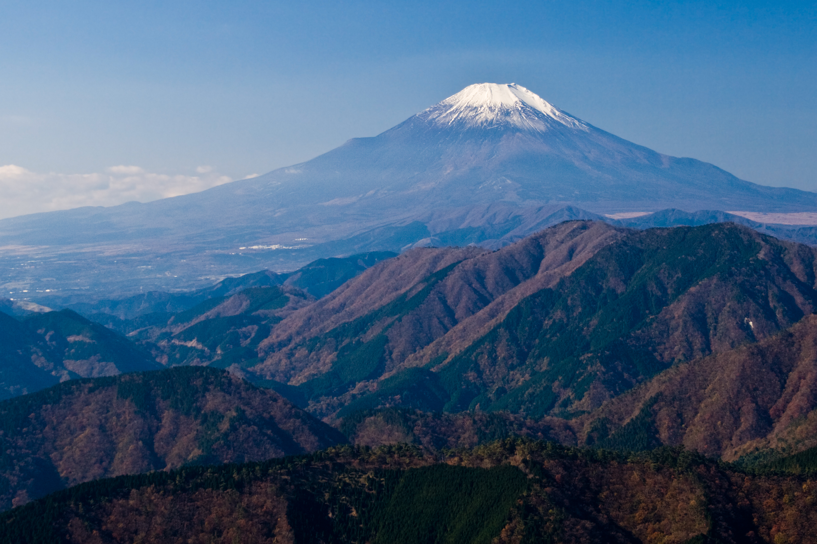 View of Mt. Fuji from Tanzawa, Kanagawa, Japan.